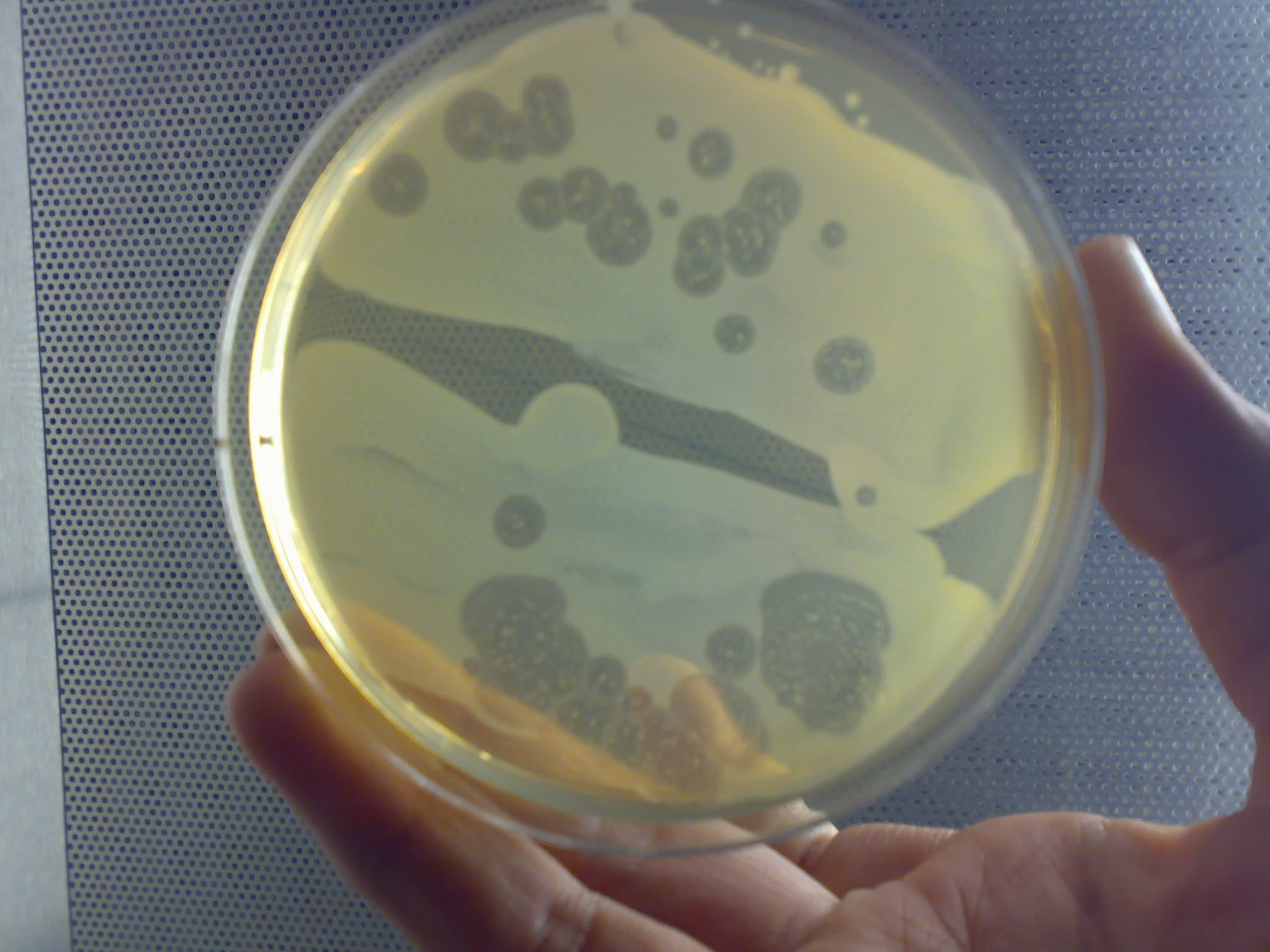 Taken at 2:33 PM on May 02, 2007 - cameraphone upload by ShoZu